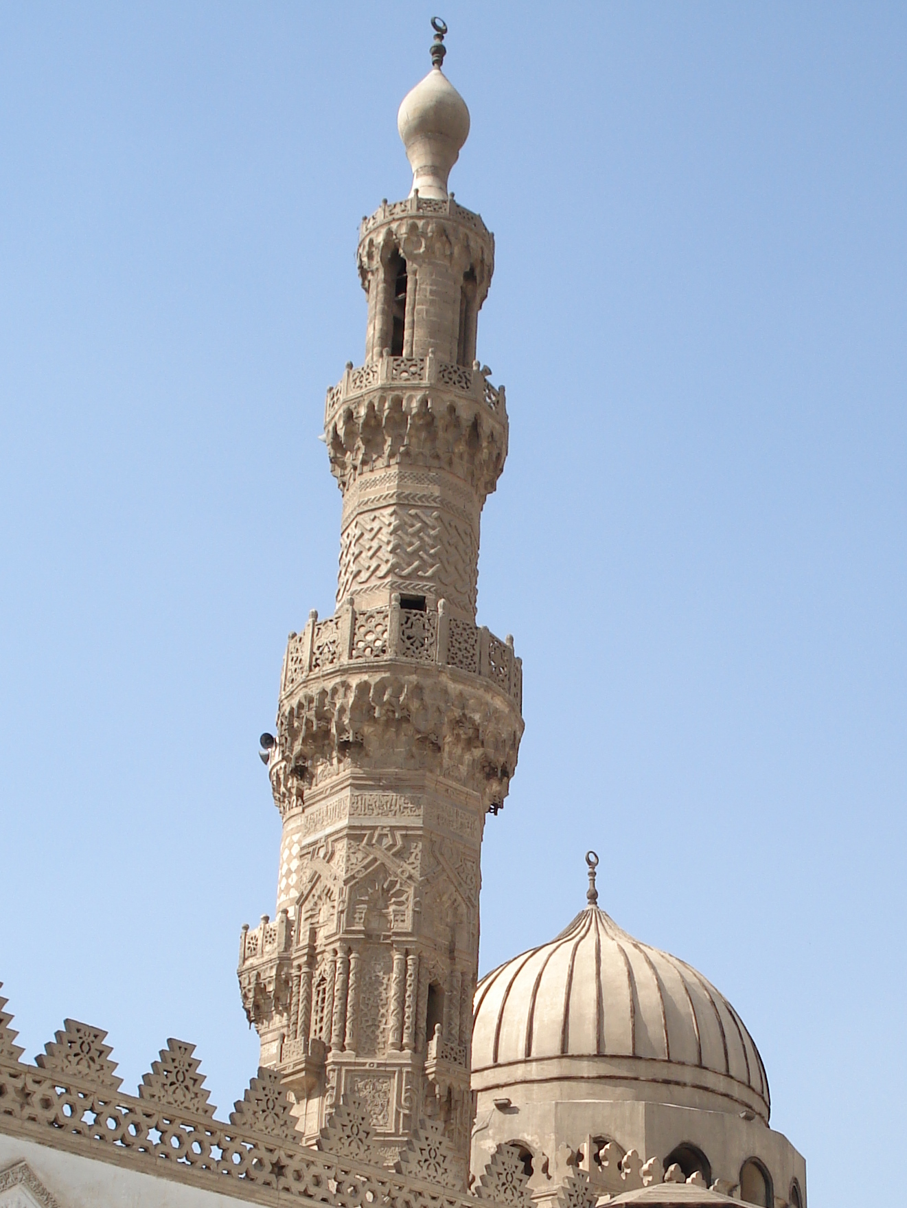 Minaret of Qaytbay at al-Azhar Mosque